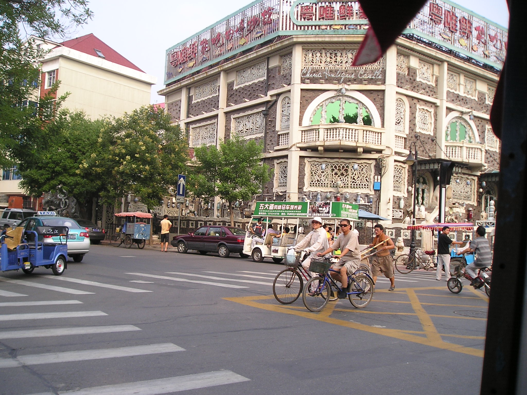 Gedalou in Hebei Lu No. 285–293, Heping District, Tianjin